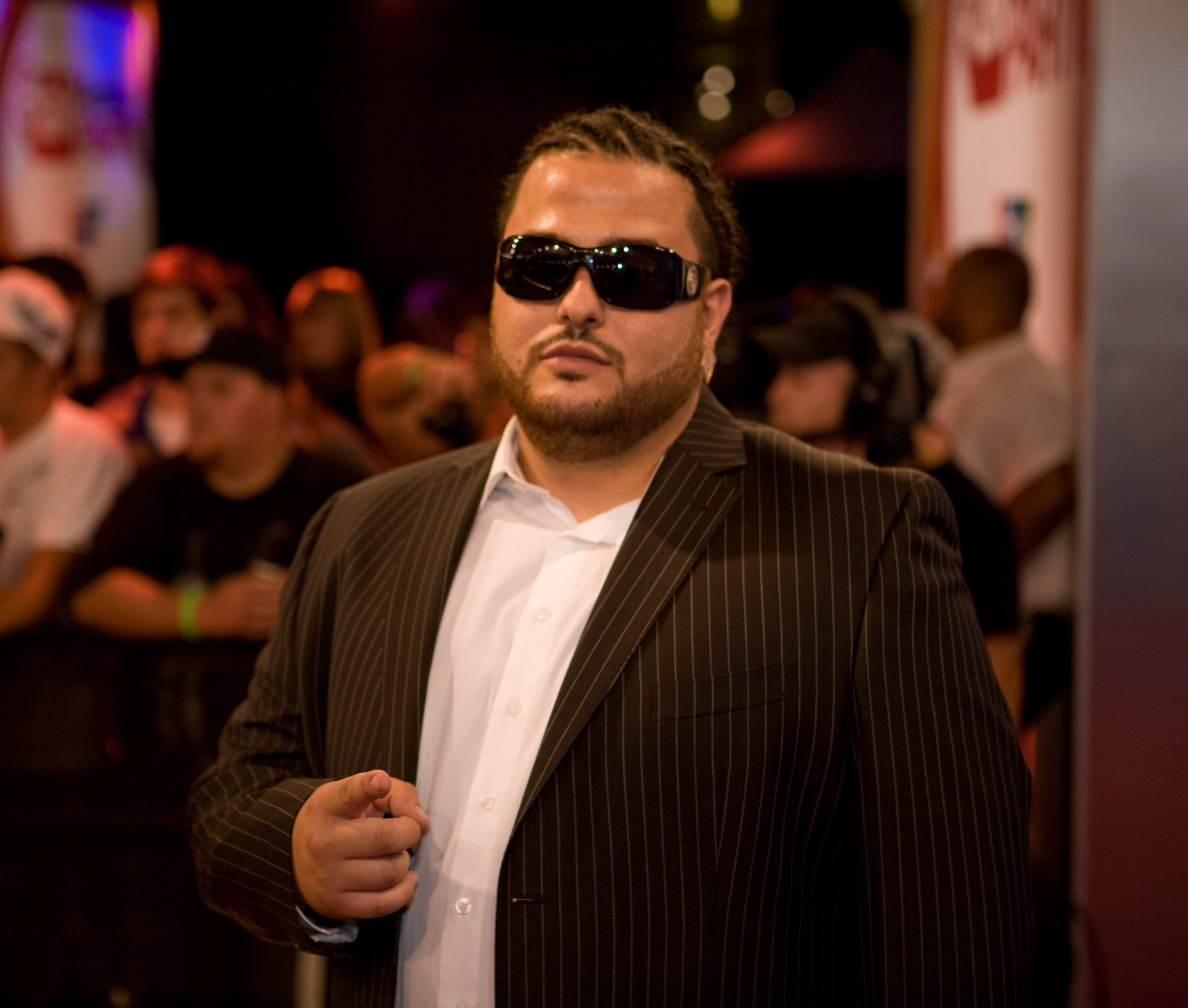 Belly at the eTalk Festival Party, during the Toronto International Film Festival.